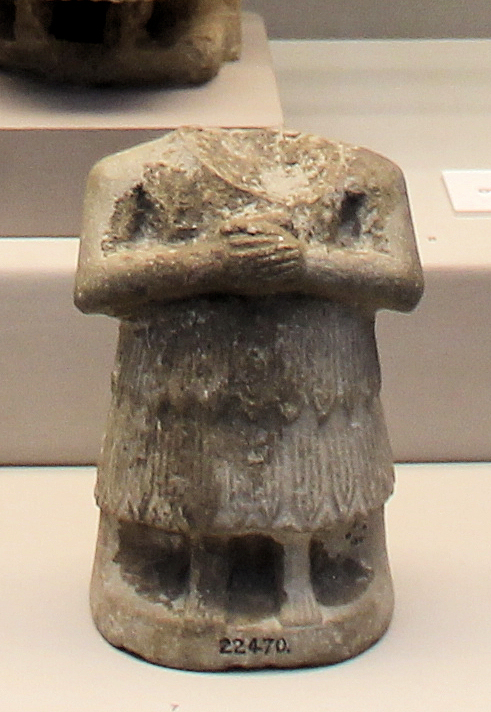 BM 22470 Statue dedicated to the goddess Nin-shubur of the city of Der by Enzi and his son Amar-kiku (2400 BCE) [1]